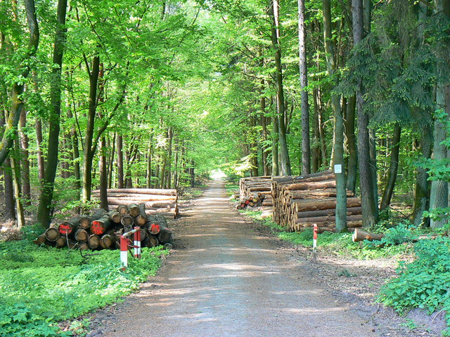 Track through the forest